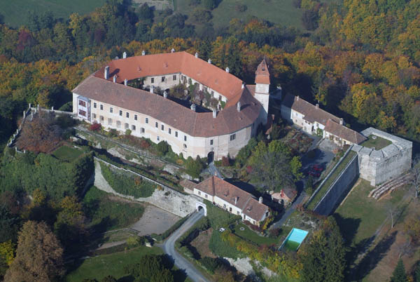 Borostyánkő (Bernstein), Austria, aerial photography